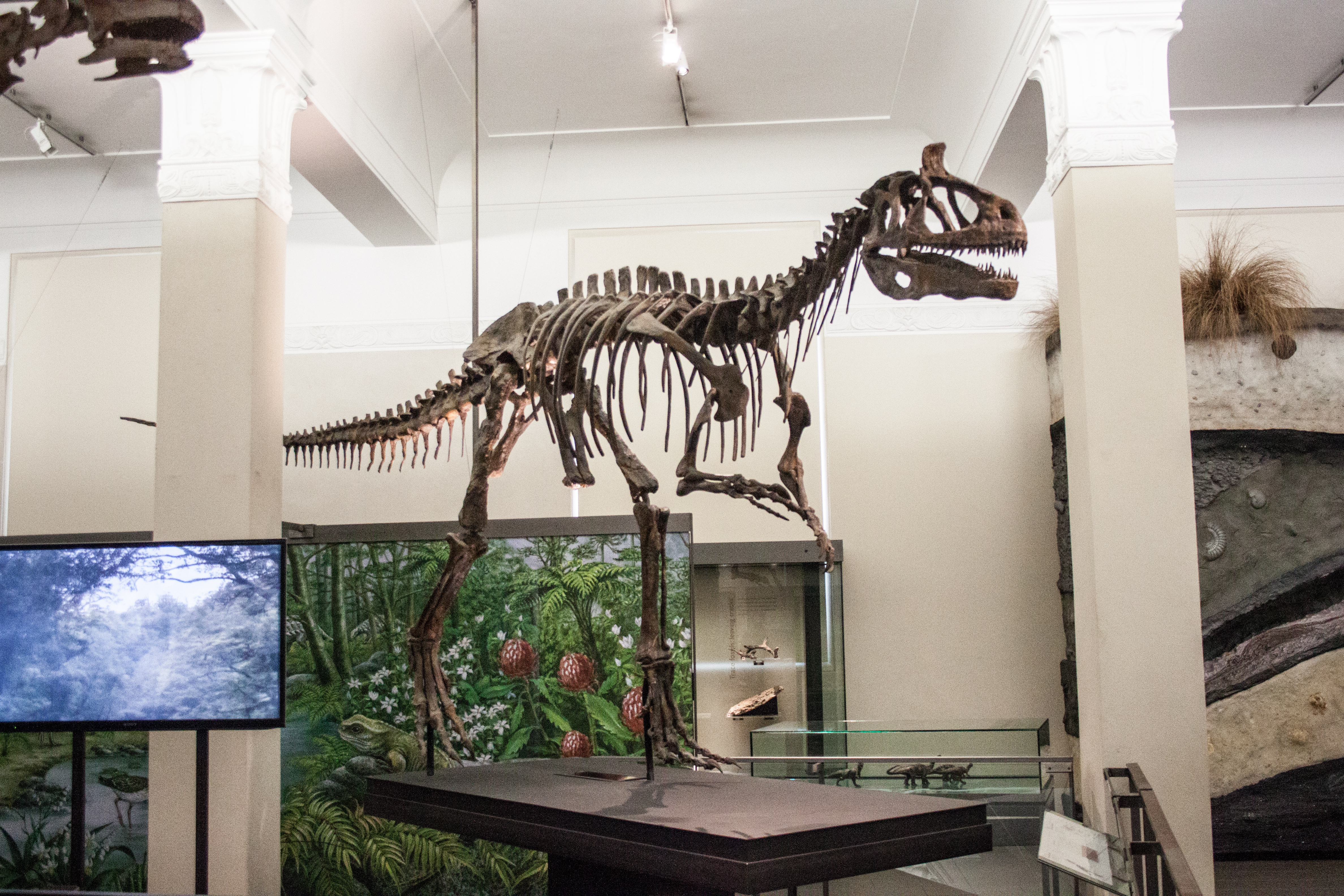 Auckland War Memorial Museum, Paleozoology, Ornithopod dinosaurslabel QS:Len,"Auckland War Memorial Museum, Paleozoology, Ornithopod dinosaurs" label QS:Lhu,"Őslénytani részleg, ornithopod dinoszaurusz (Thescelosaurus)"